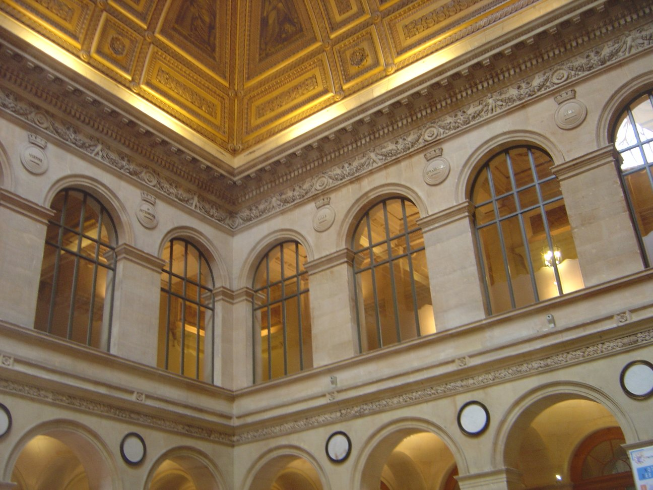 The Palais Brongniart, in Paris (former Paris stock exchange)